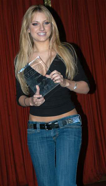 Teagan Presley holding her FOXE Award for Video Vixen, February 3, 2005